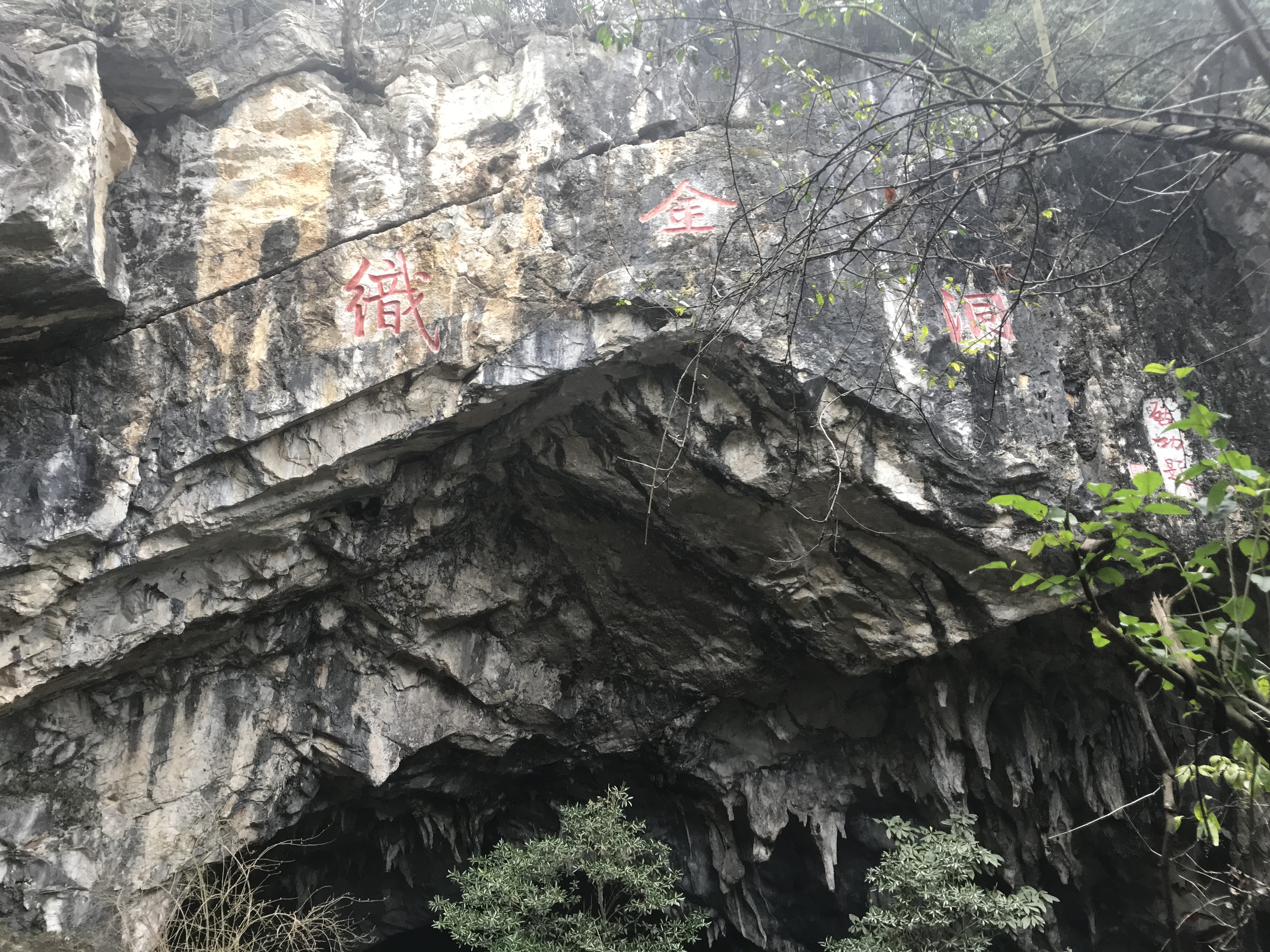 This is a view of the entrance of Zhijin Cave, one of the largest cave systems in China.